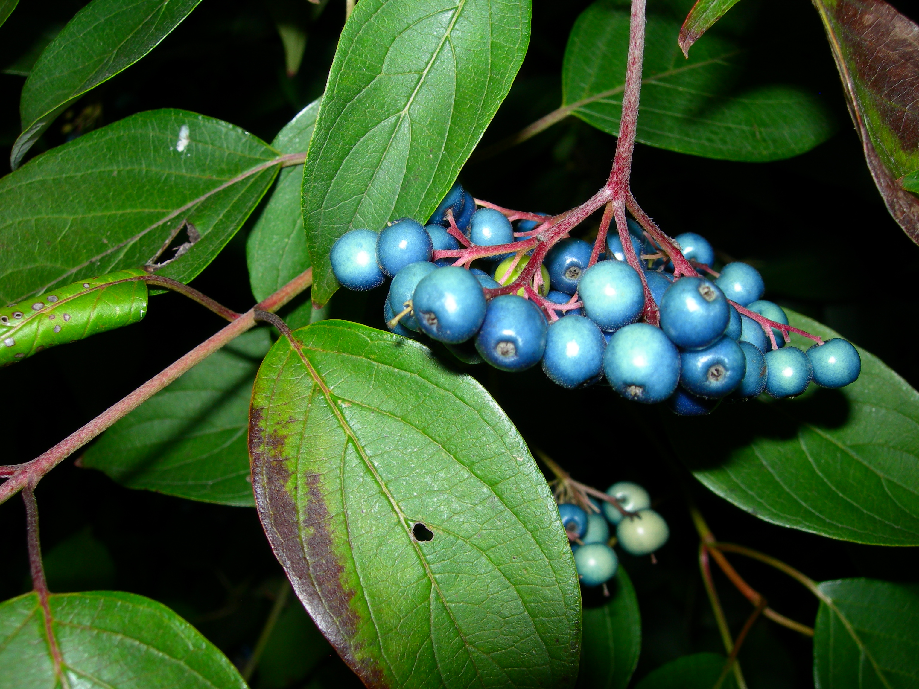 I, Mattman723, took this picture in upstate NY, but cannot identify it.